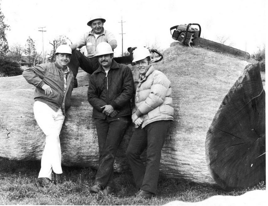 Photo of loggers (l. to r. Guy Hall, Mill Owner, Everet Scott, Head Logger, Joe Triolla, Logger and Howard Sands, Camp Forester) alongside the main trunk of the Hooker Oak.